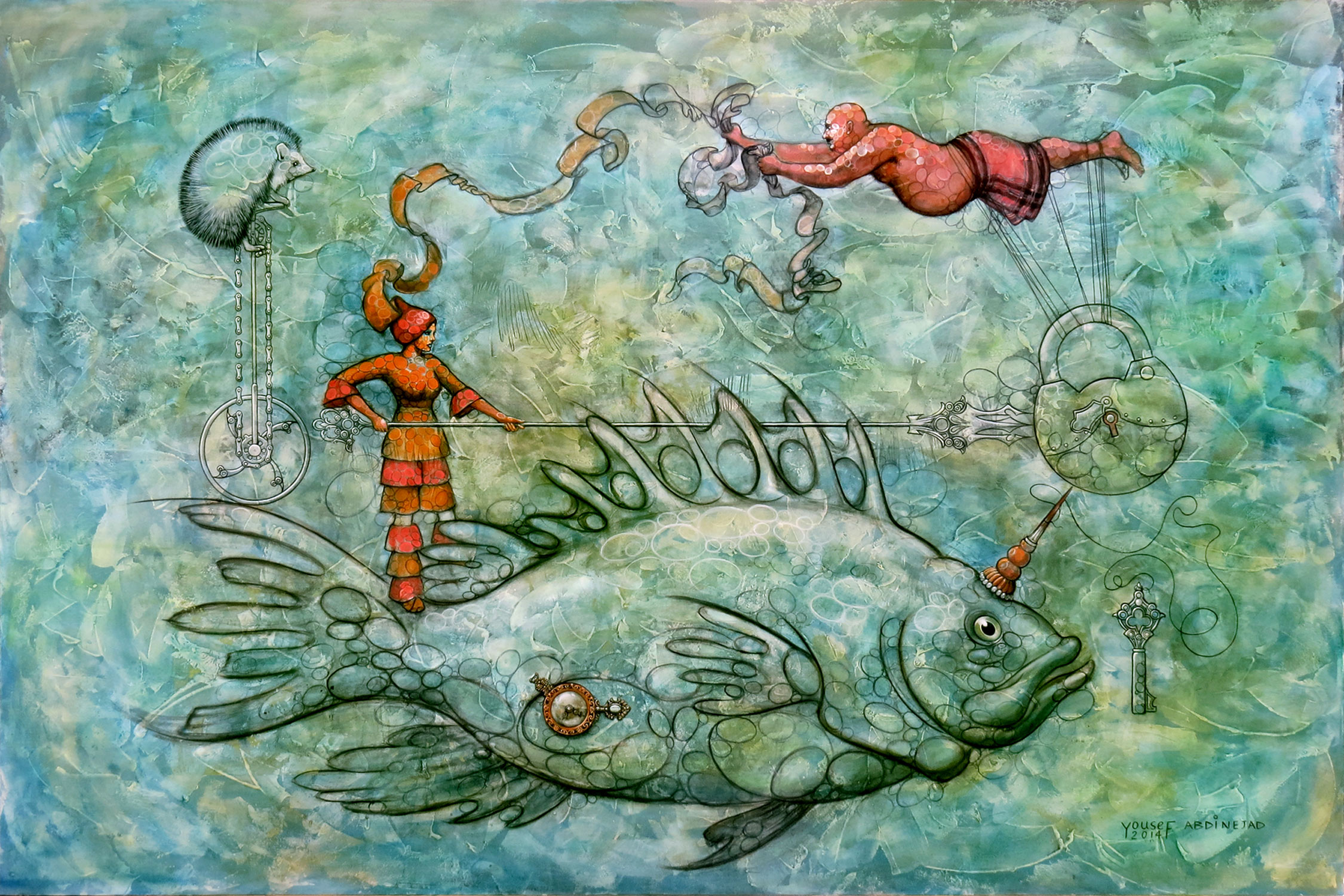 Ghusl - By: Yousef Abdinejad - Technique: Acrylic on canvas - Size: 150 x 100 cm